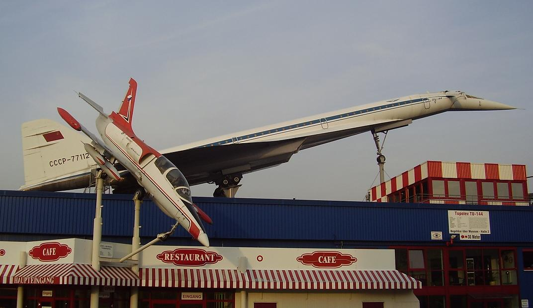 Tupolev Tu-144on the roof of the Sinsheim Auto & Technik Museum (Sinsheim / Germany)